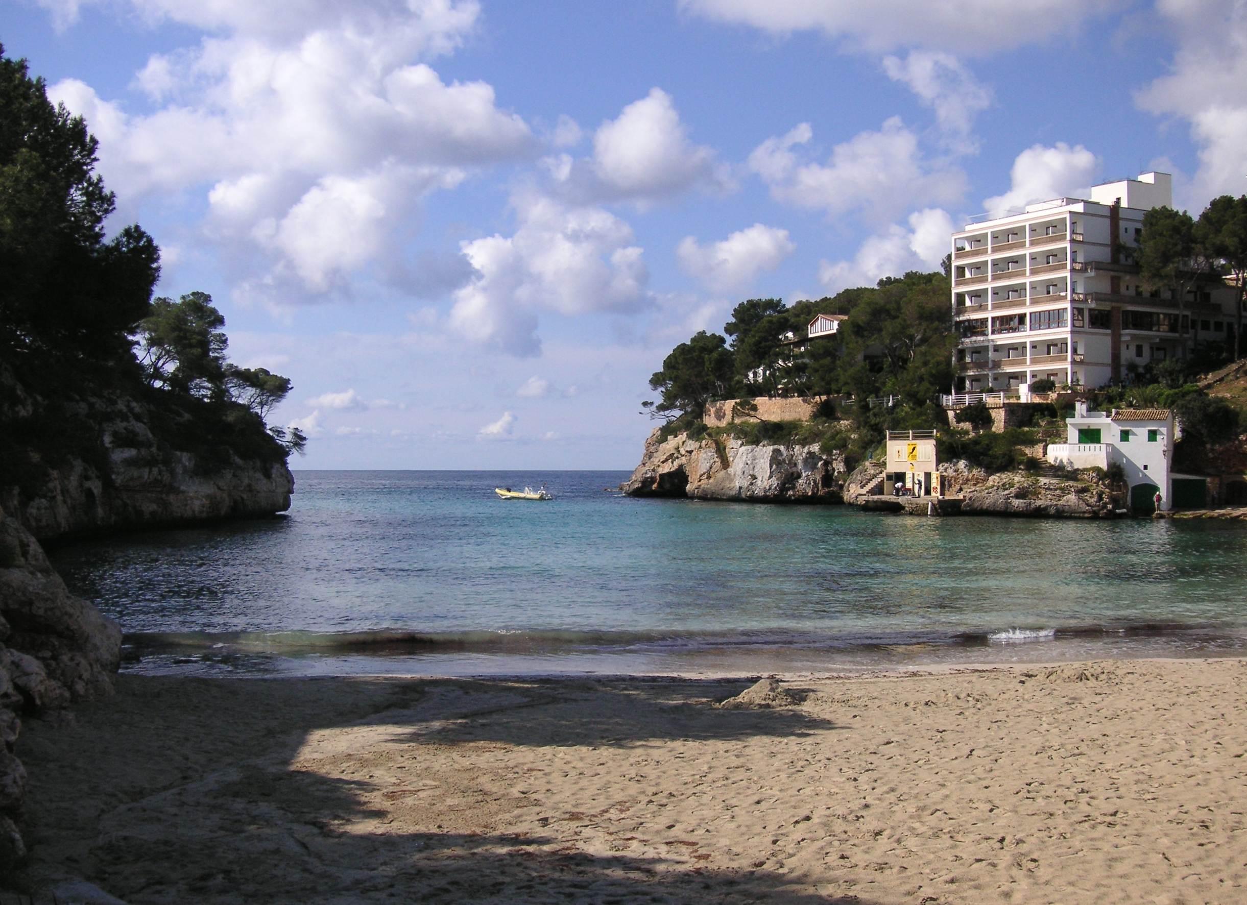 Inlet of Cala Santanyi, Mallorca.